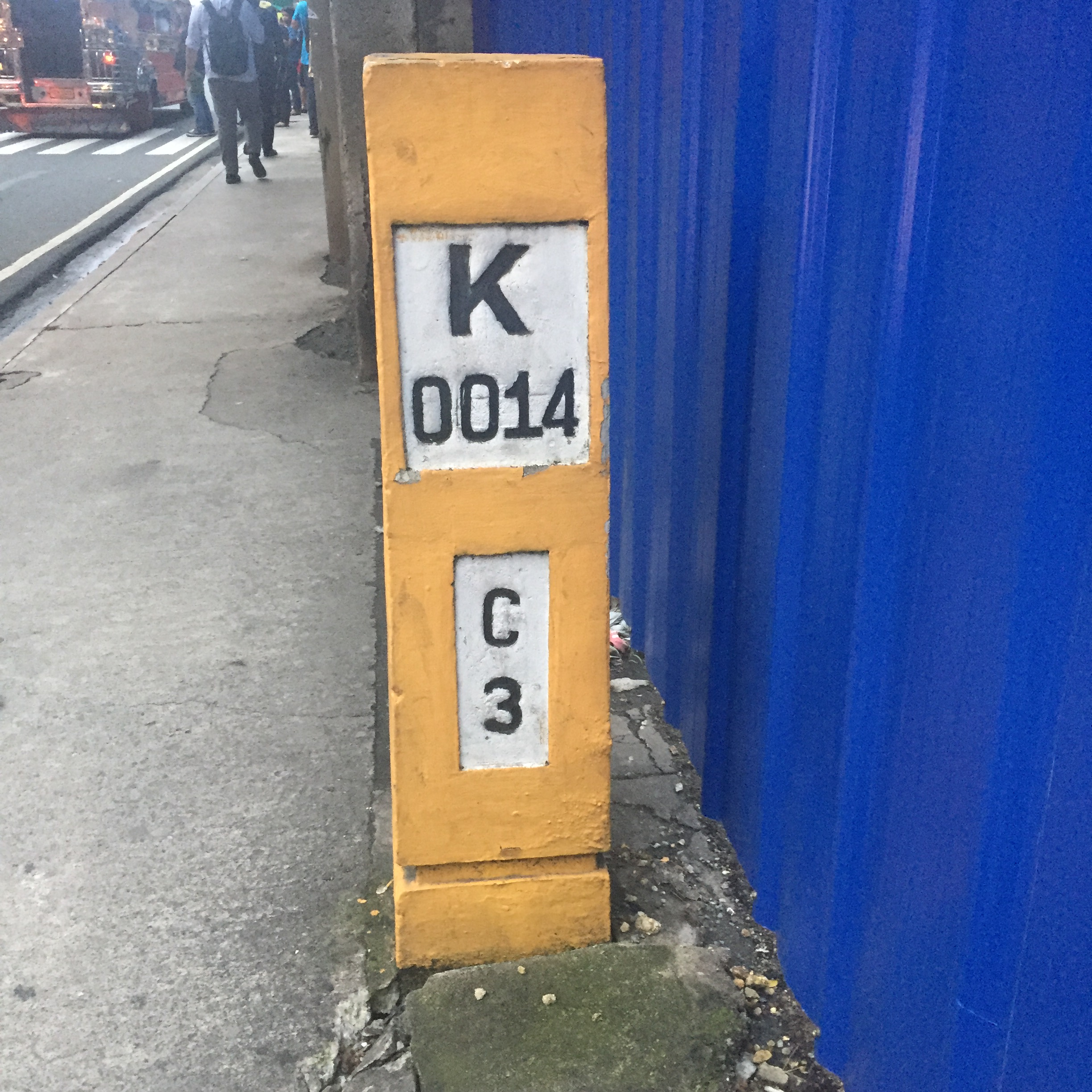 An example of a milestone in the Philippines, found at Ortigas Avenue, Pasig.